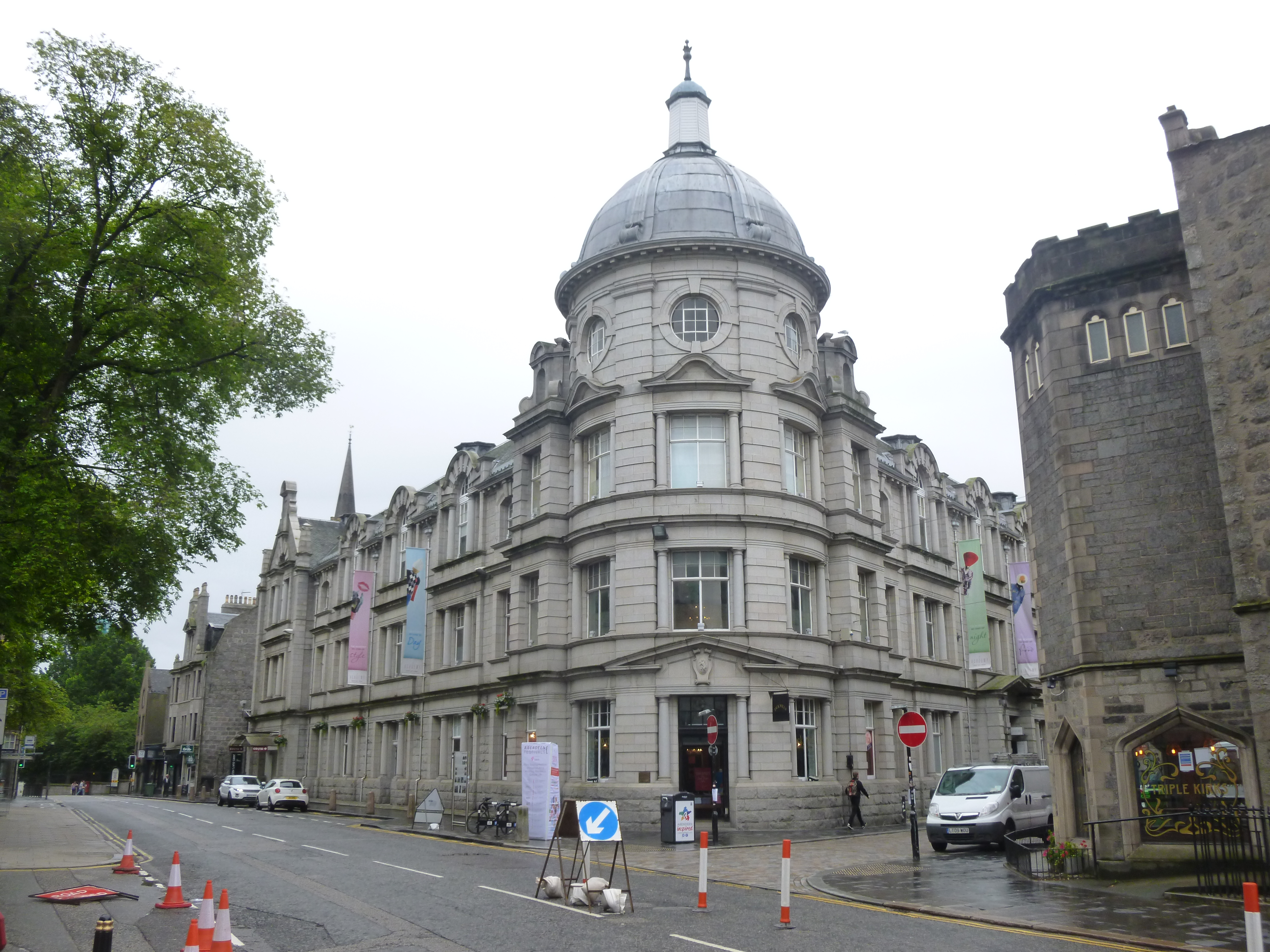 The Academy, Belmont St and Schoolhill, Aberdeen